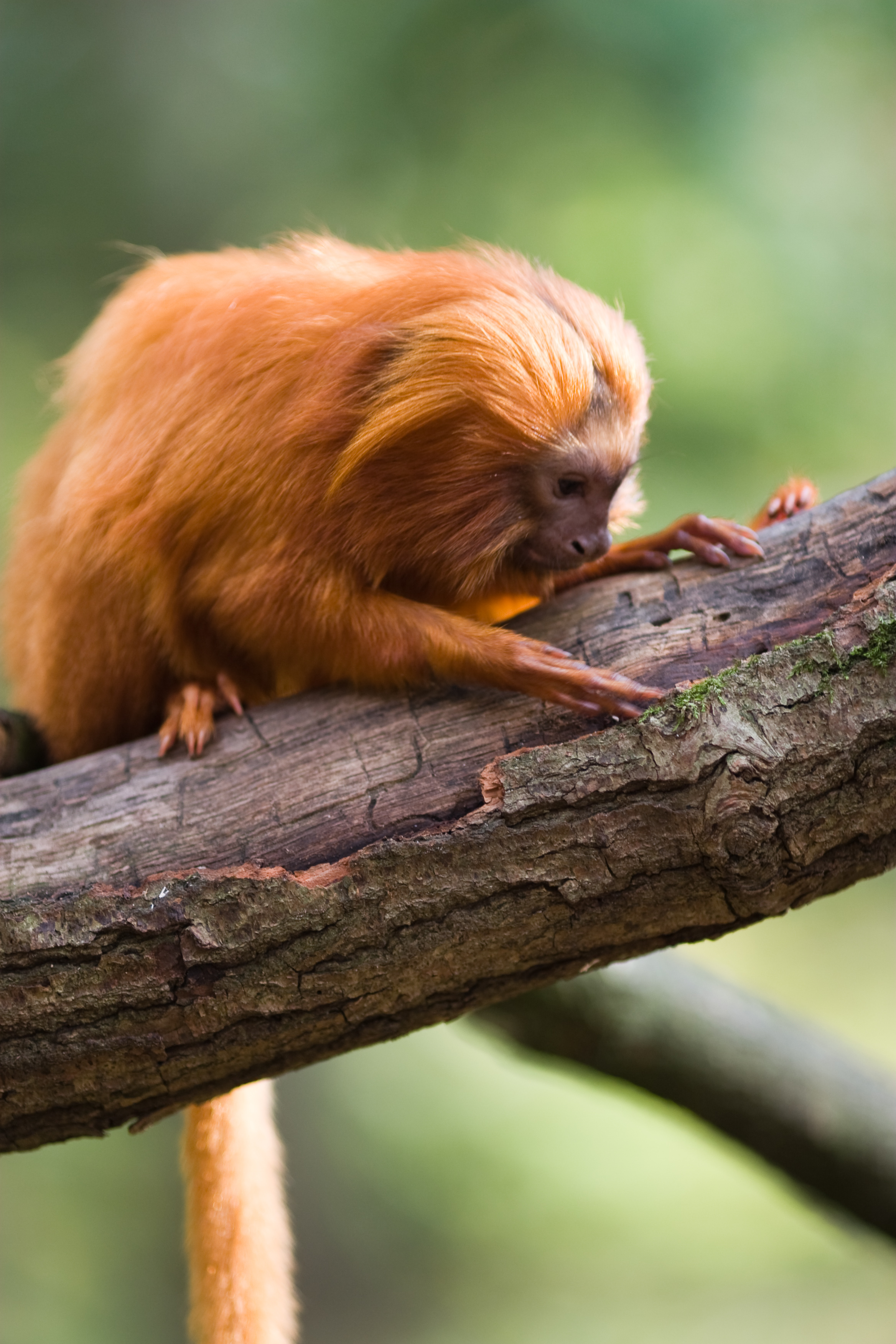 Golden lion tamarin (Leontopithecus rosalia) foraging.